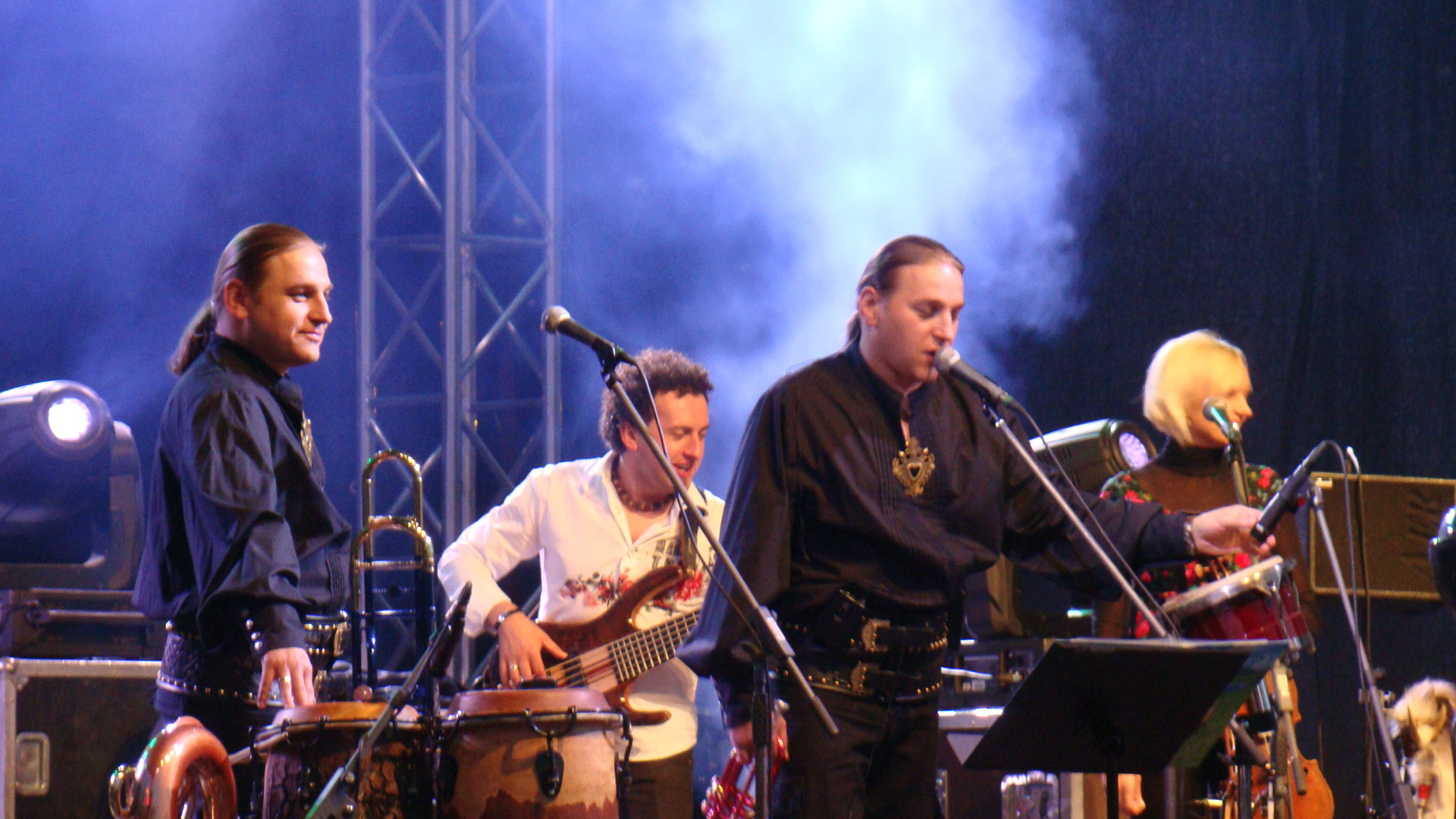 Golec uOrkiestra (band). Bielsko-Biała, Gemini Park, 23 May 2009.